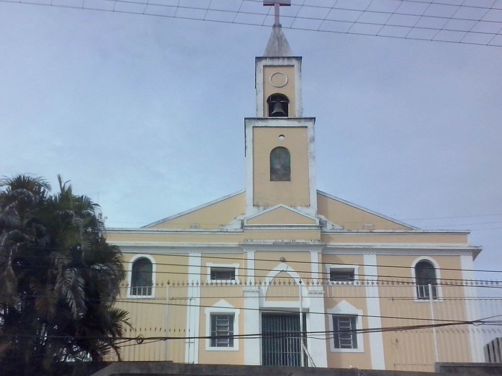 View of the Saint Peter Church, in Itaboraí, Rio de Janeiro, Brazil.